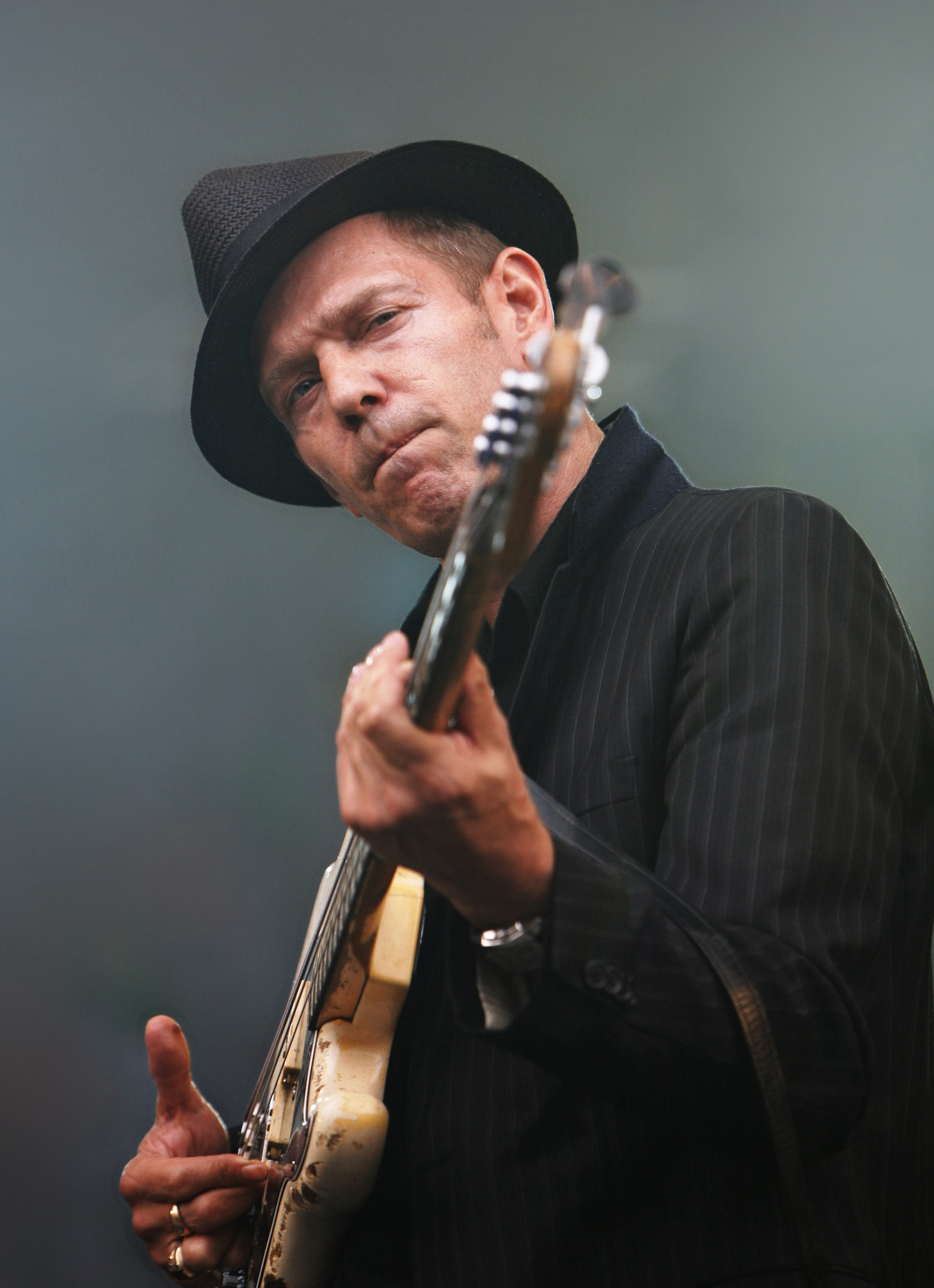 Paul Simonon at the Eurockéennes of 2007.